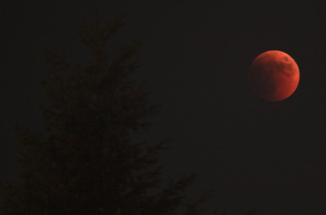 Red moon in Sofia at full moon eclipse in Sofia, Bulgaria on June 15, 2011